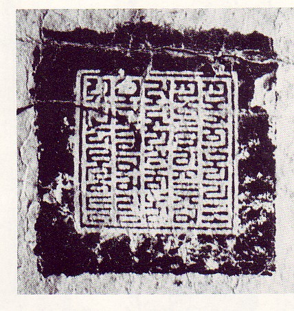 Seal of the Tibetan Ruler Pholhane